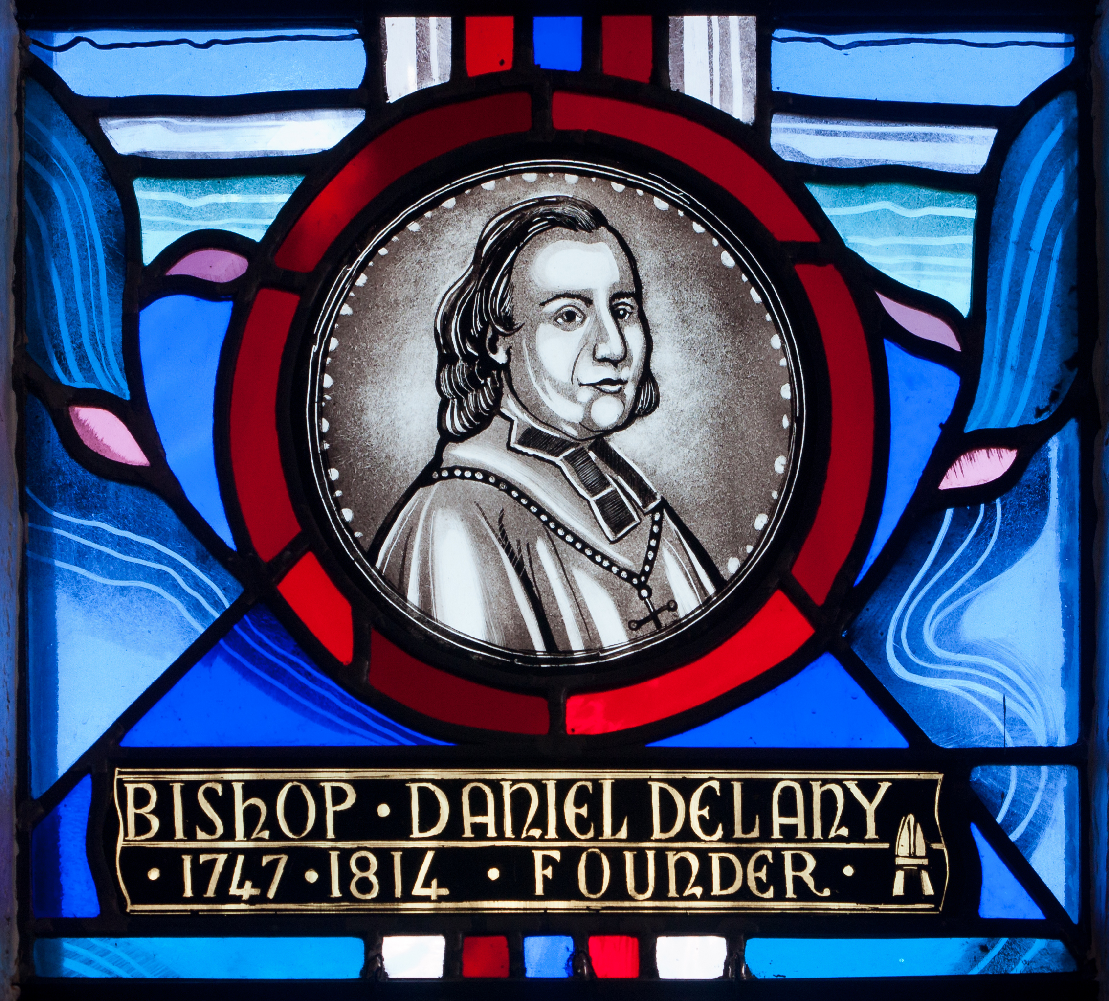 Detail of the centre light of the stained glass window in the north wall of the north transept created by George Walsh, depicting Bishop Daniel Delany. George Walsh (1939–) Alternative names George William WalshDescriptionIrish stained-glass artistDate of birth 1939 Location of birth Dublin Work location Dublin Authority control : Q45315802 creator QS:P170,Q45315802